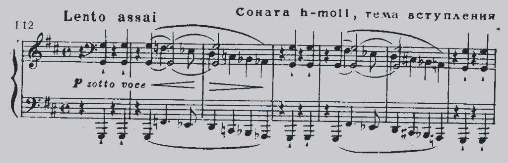 Music manuscript